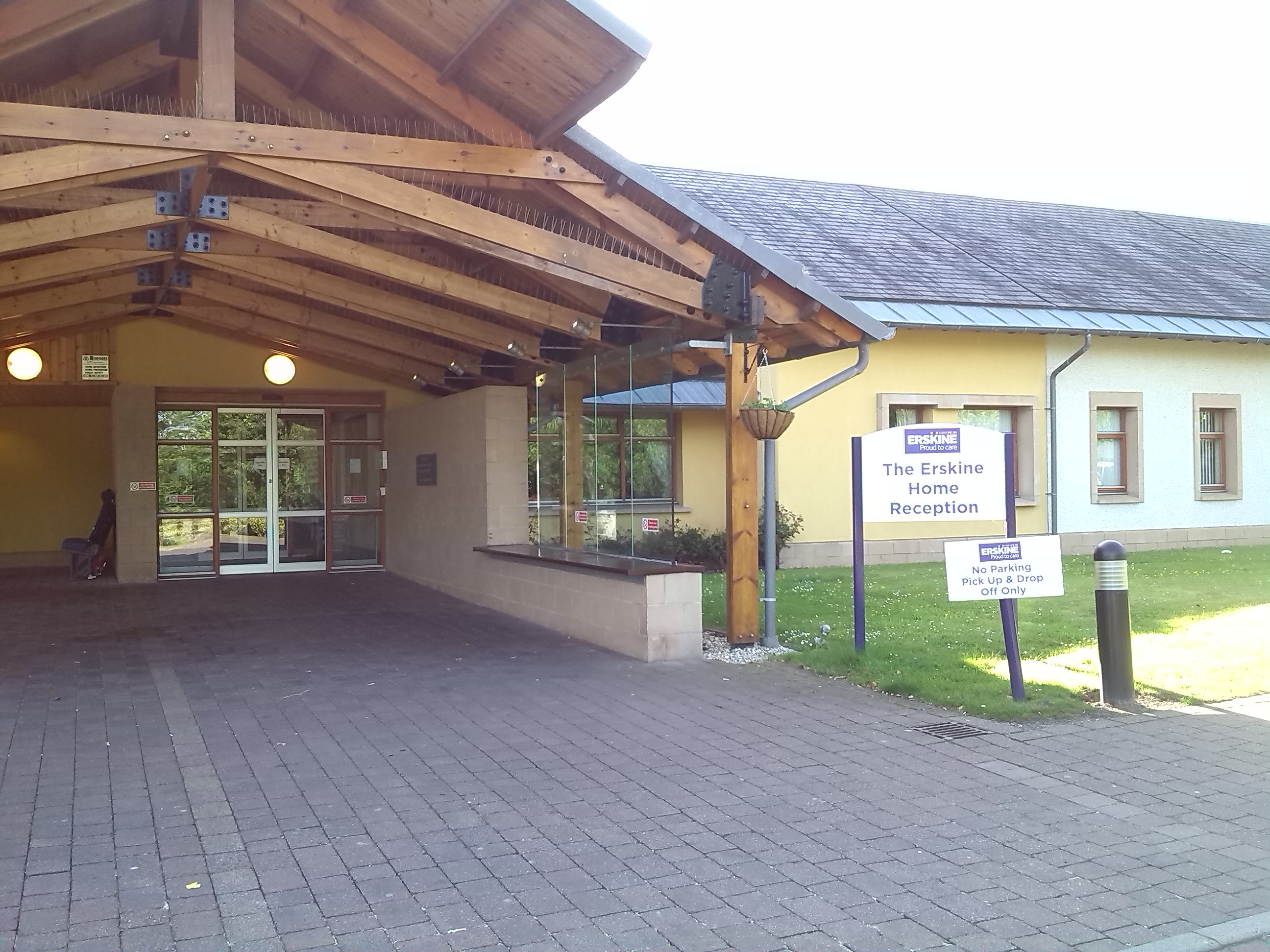 Care home for ex-veterans. The charity provide long term care for ex-service men. They dropped 'hospital' in recent year's and are now known as just 'Erskine'.